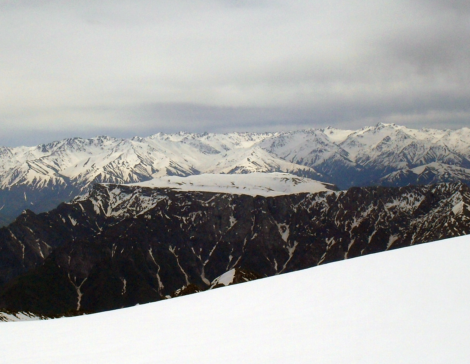 View to the Pulatkhan from Big Chimgan (Bolshoy Chimgan) peak. Tashkent area, Uzbekistan.